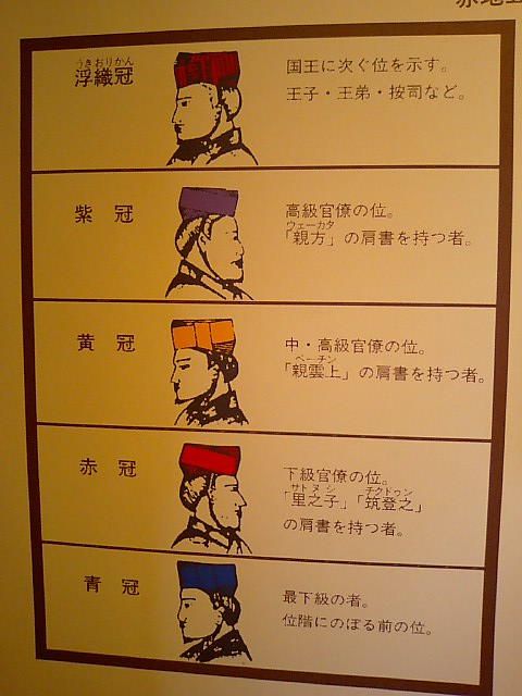 Caps according to social class